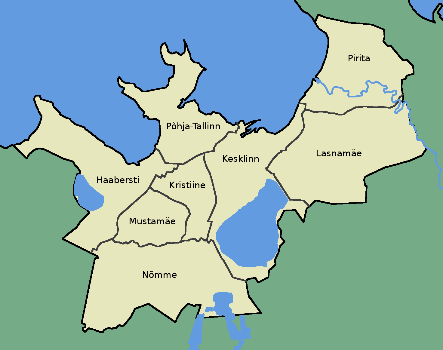 Map of city administrative districts of Tallinn, Estonia